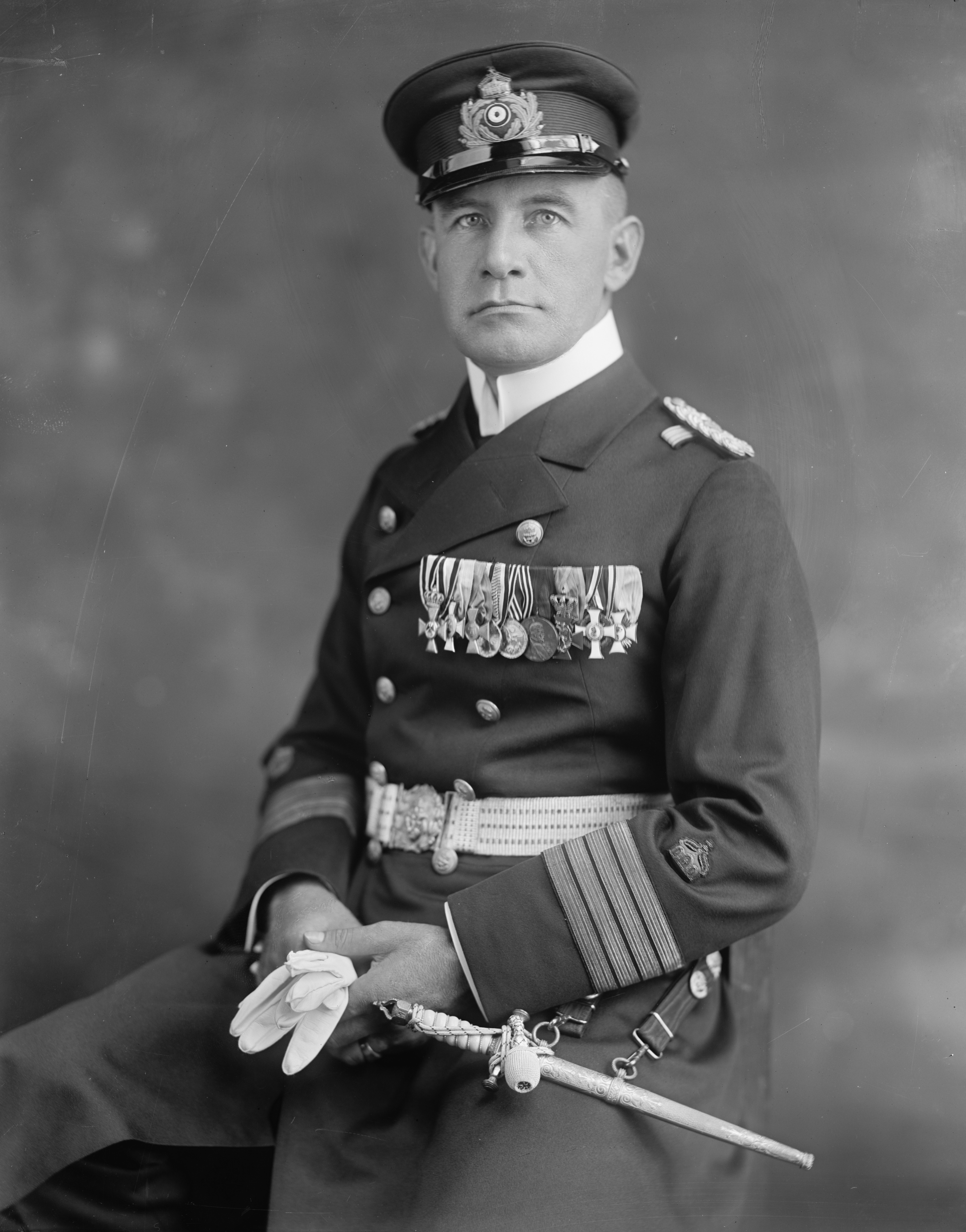 Portrait photograph of Commander Karl Boy-Ed (1872-1930); cropped by uploader.